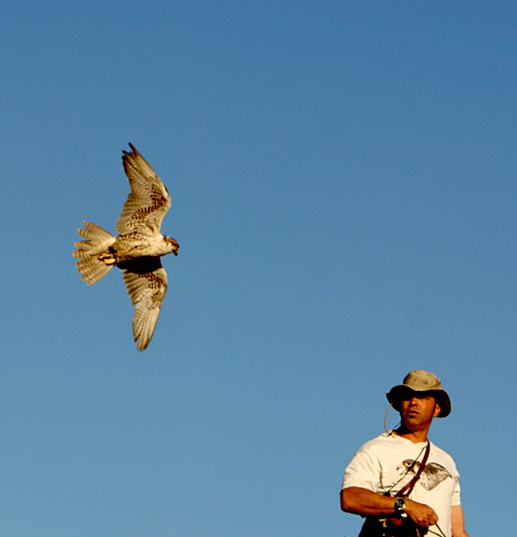 I am JC Dill, the photographer and copyright holder of this photo. This photo depicts Jeff Diaz of Ronin Air Falconry Services flying a Saker Falcon.